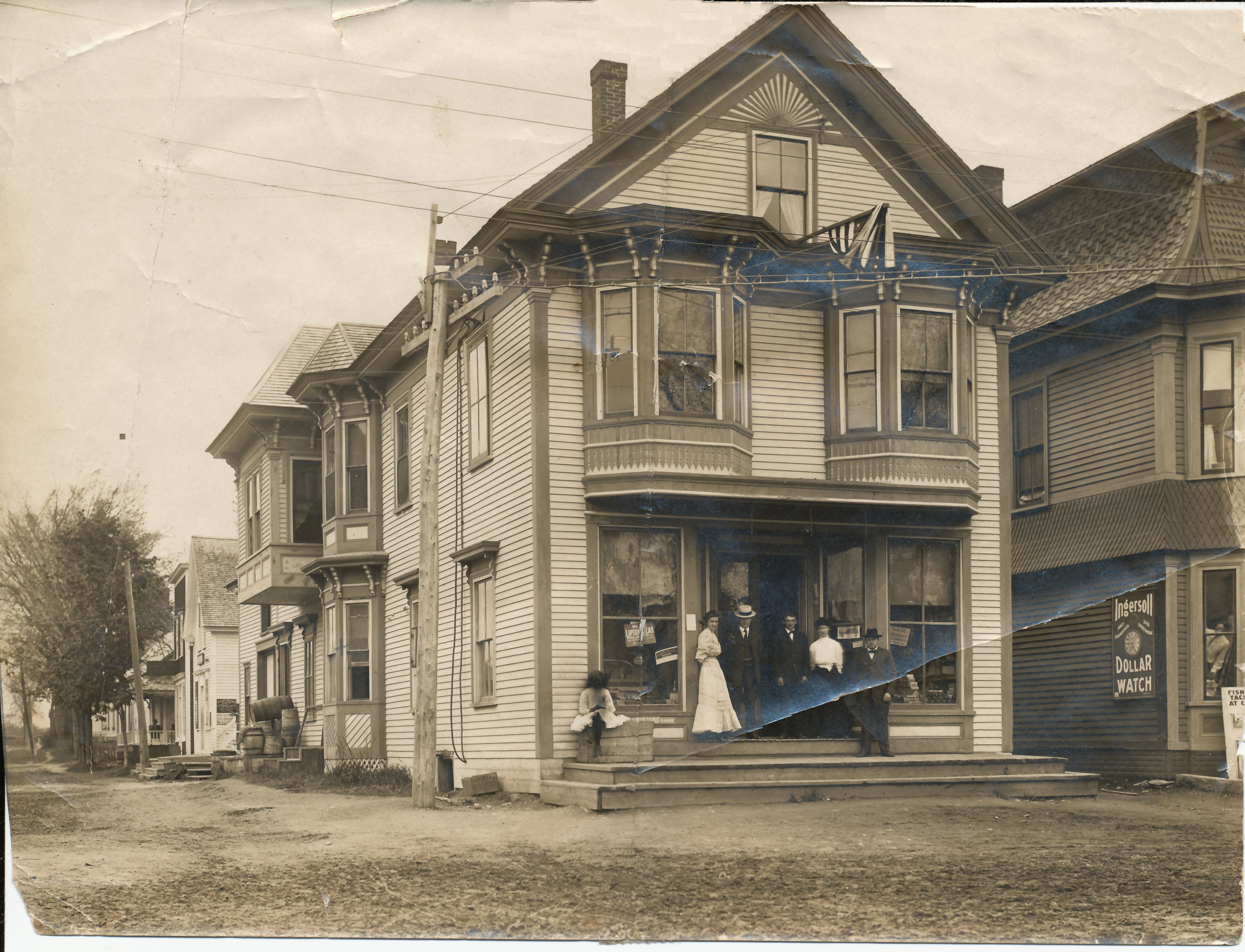 Patten Drug Store in Patten, Penobscot County, Maine, at corner of Main and Katahdin Streets. Taken about 1880. Store signs for Lipton tea, quality seeds, fresh lot cocoanut, Ingersoll Dollar Watch, fish and tackle.